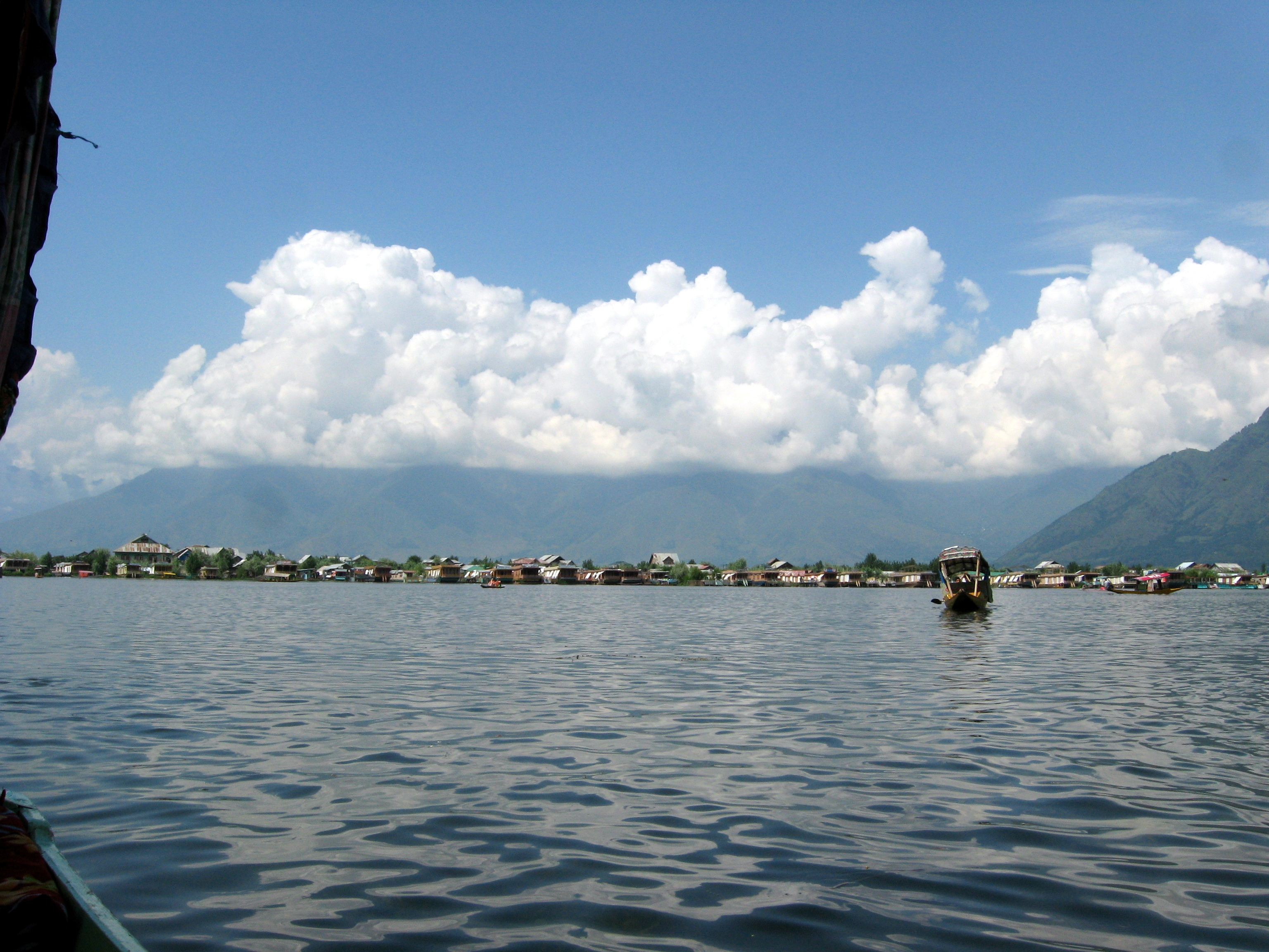 View of the Dal Lake from a Shikara